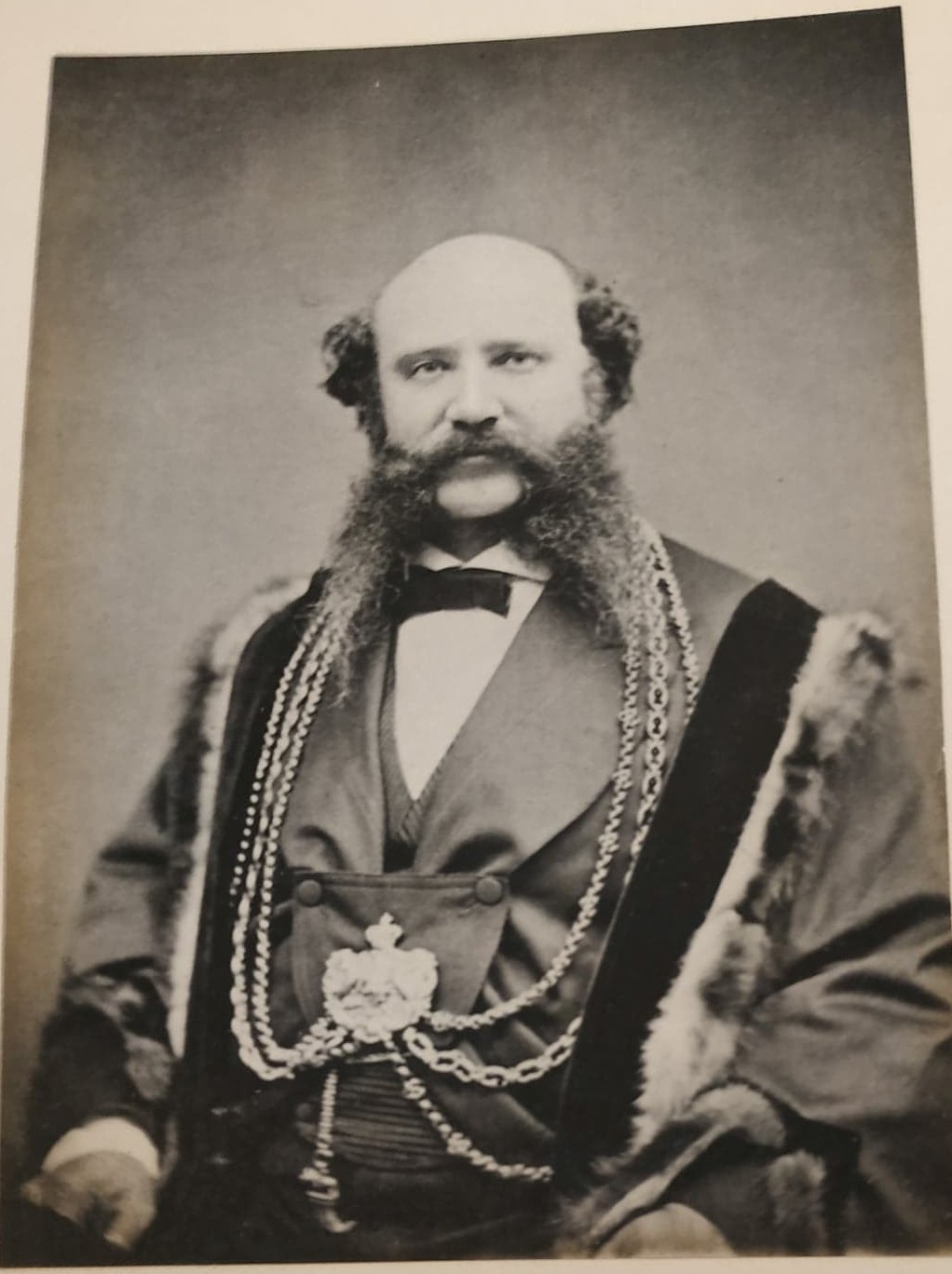 A mayoral photograph presented for use in the Lord Mayor's Room by Alderman J W Harding, Lord Mayor of Leeds 1898-9